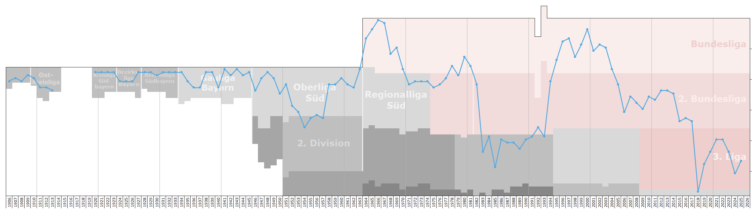 Chart of end-season table positions of 1860 München in the football league system of Germany. Data source: RSSSF, wikipedia, f-archiv.de, fussball.de